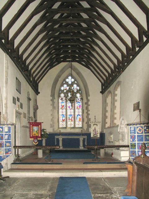 St Mary, Lenham, Kent - Chancel